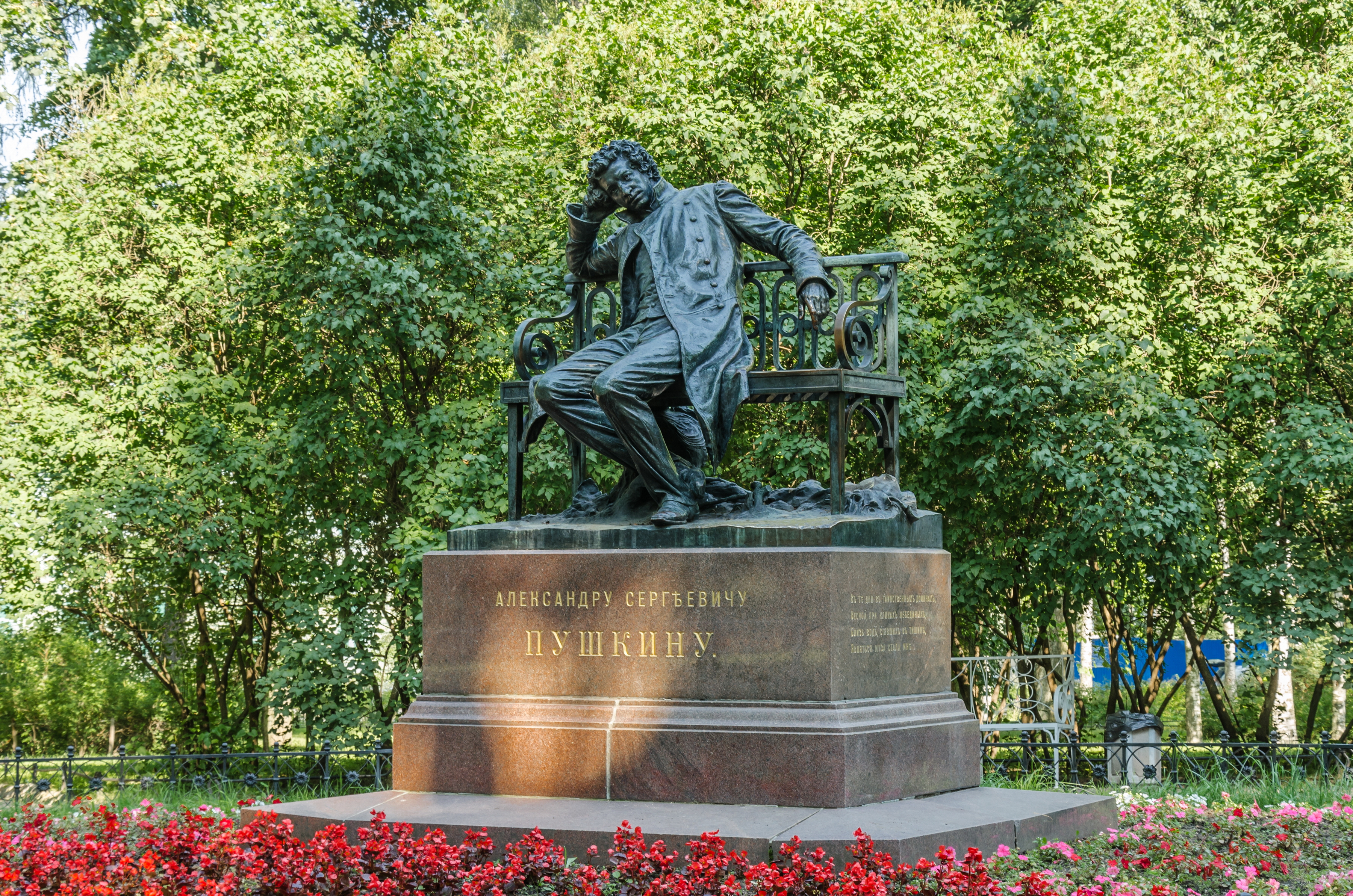 Pushkin monument in Tsarskoe Selo, Saint Petersburg